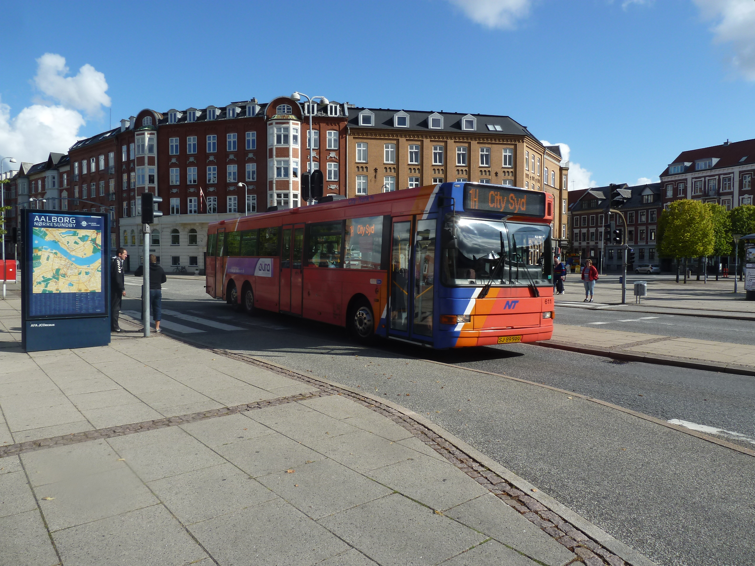 Bus line 1H on John F. Kennedys Plads in Aalborg in Denmark.